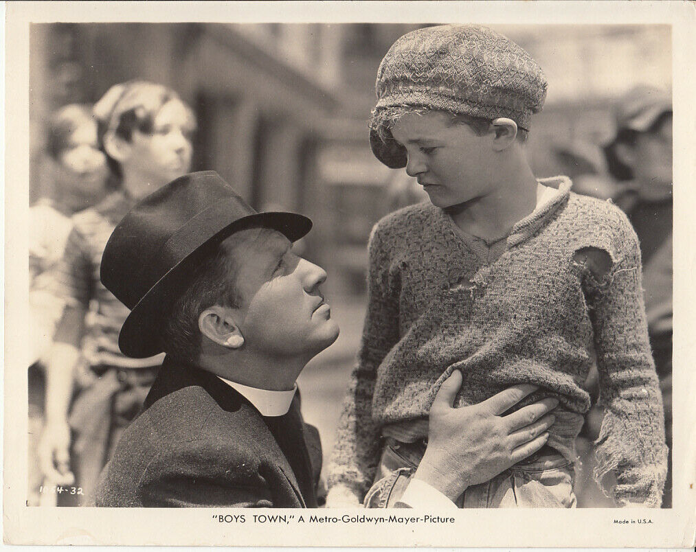 Press photo of Spencer Tracy and Martin Spellman in "Boys Town" (1938 film)